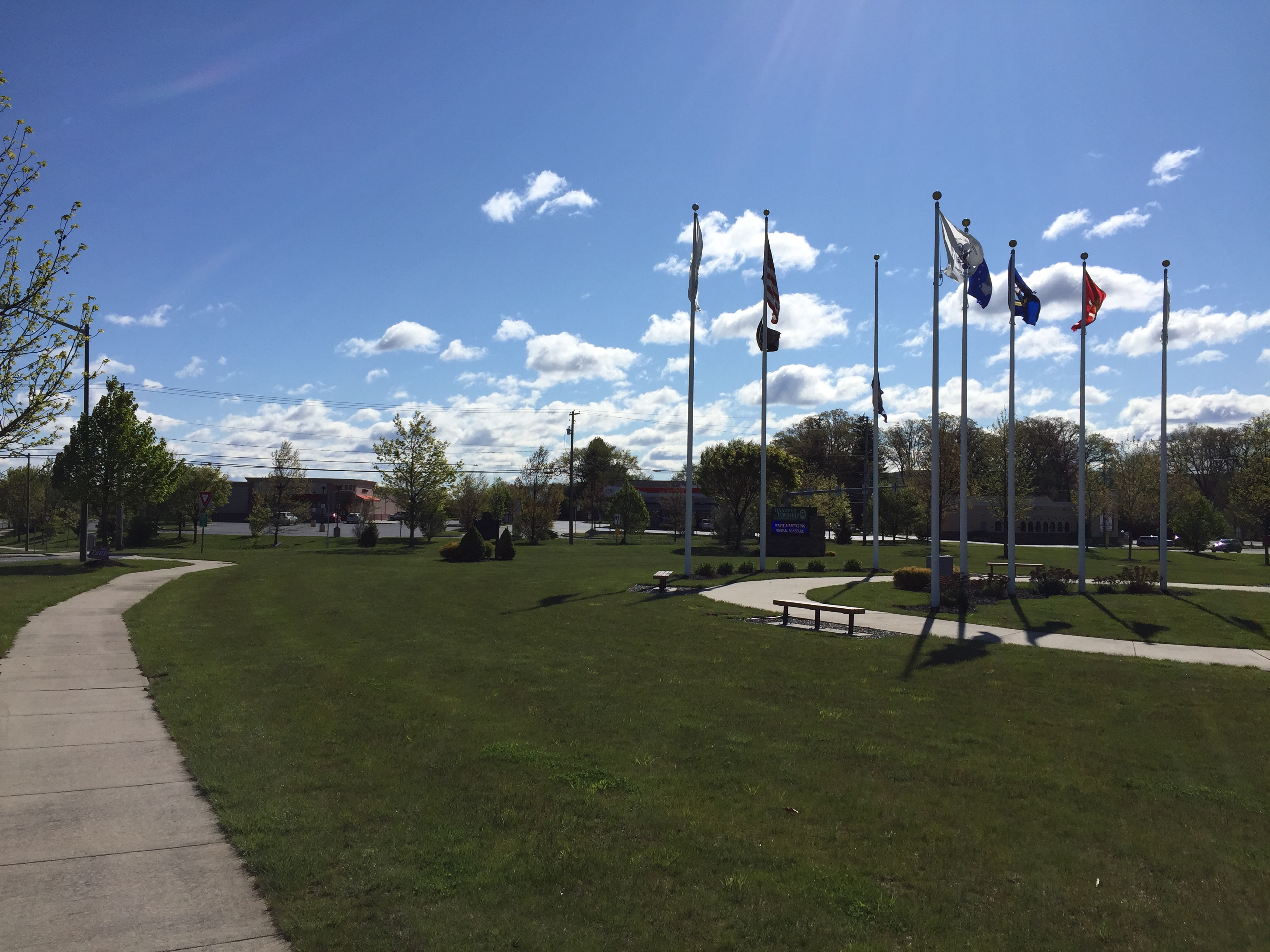 View near the intersection of PA 512 and Hanoverville Road in Hanover Township, Northampton County PA, Armed Services Park in foreground